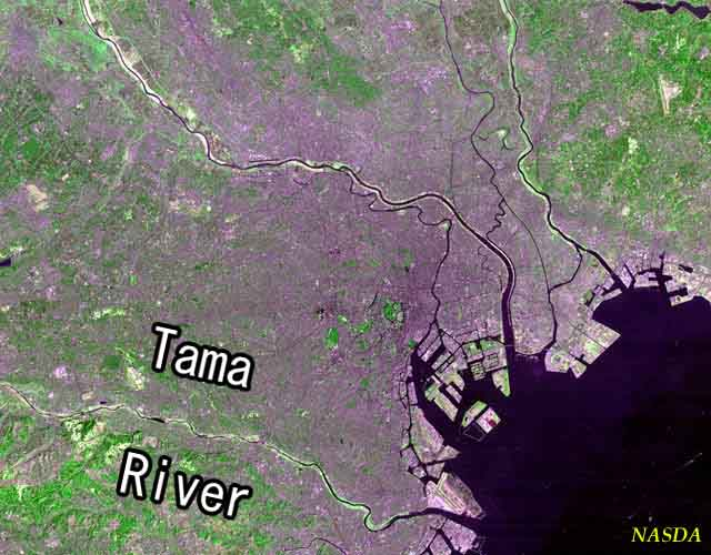 Tokyo Landsat Tama River Japan This image came from Wikipedia where it was called Tokyo_Landsat.jpg Image:Tokyo Landsat.jpg uploaded by User:WhisperToMe I added type.